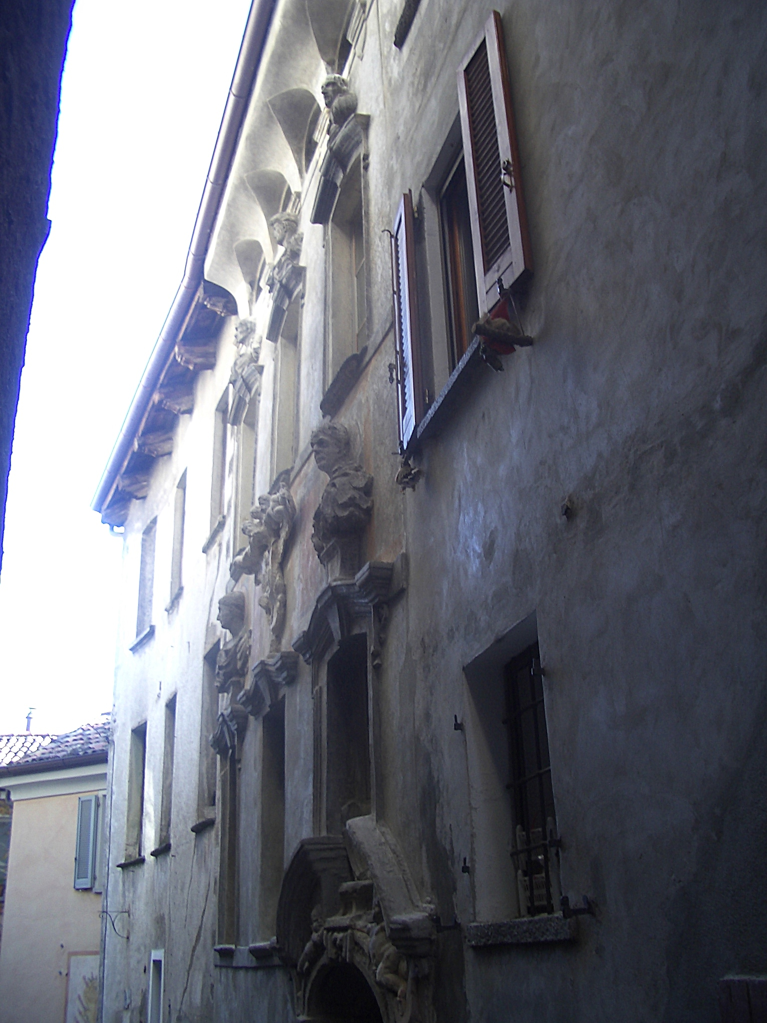 Castello, Valsolda, Pagani house (the house hosts now a museum dedicated to the artist Paolo Pagani)